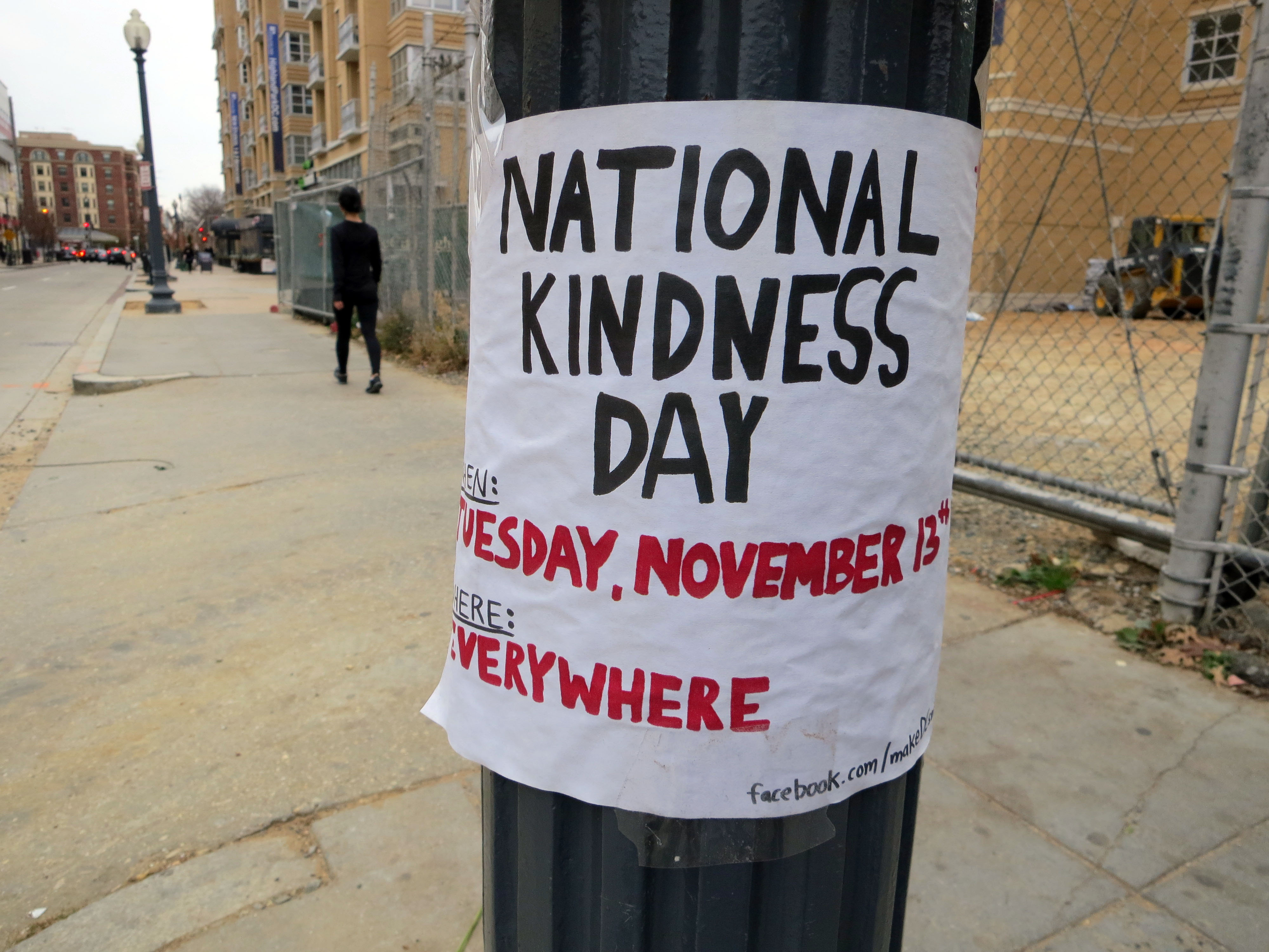 National Kindness Day